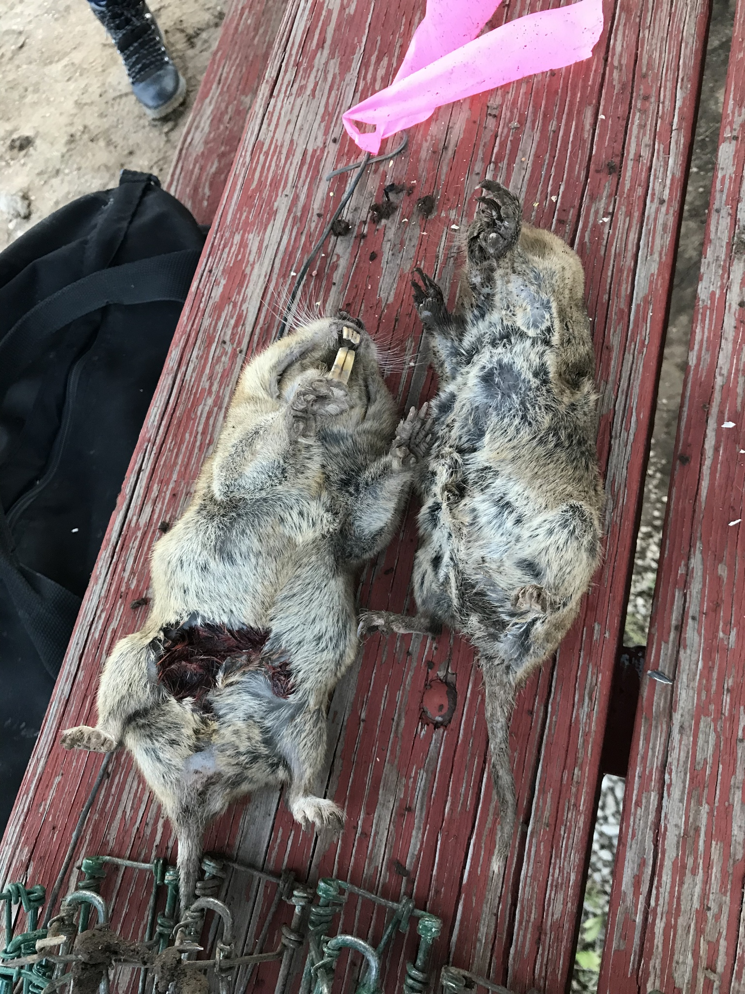 Cratogeomys castanops - Yellow-faced Pocket Gopher. Species of rodent.